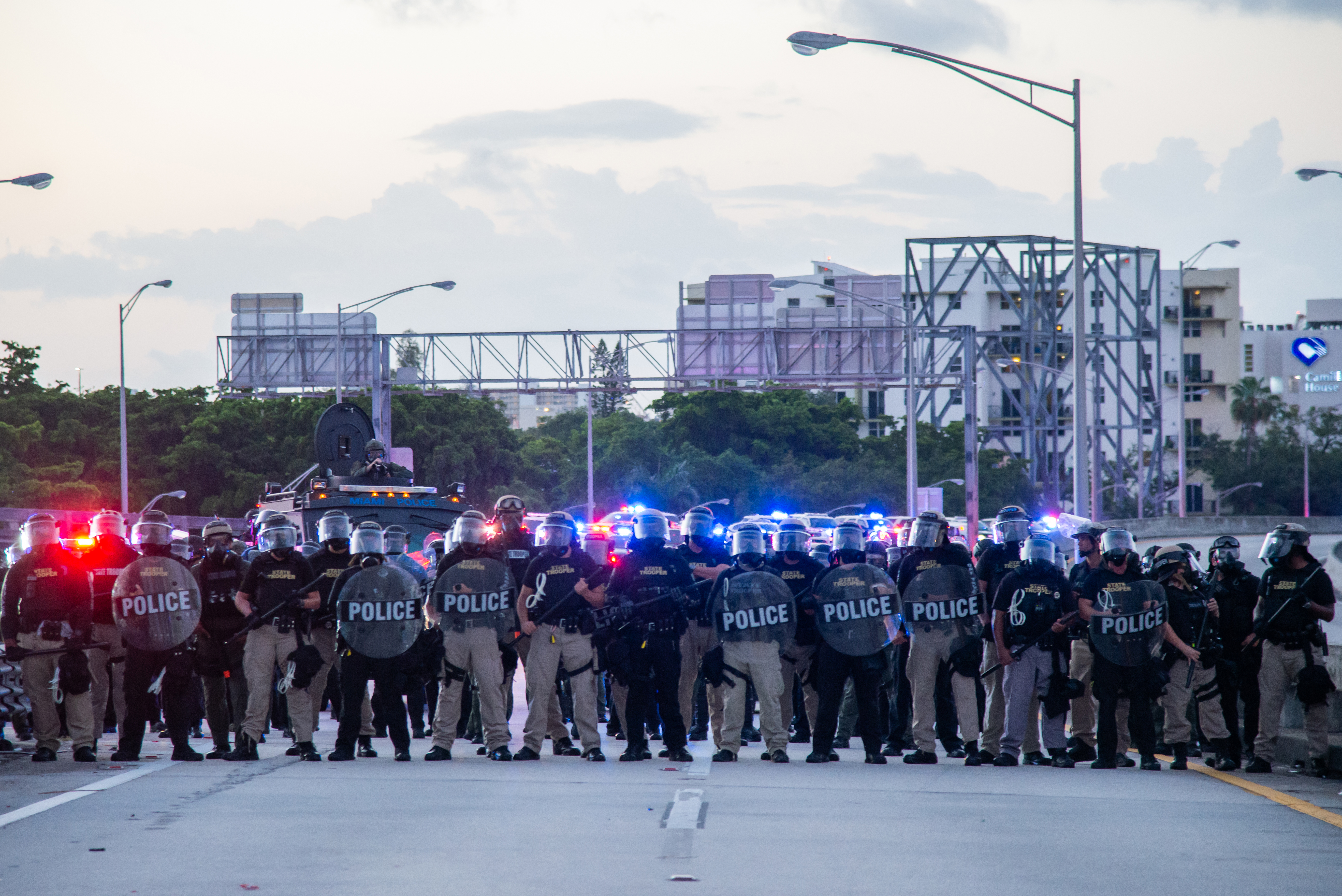 Protesters meet police on I-95 during the Downtown Miami protests on June 12